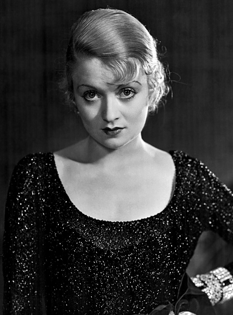 Original studio publicity photo of Constance Bennett for the American drama film Rockabye (1932).